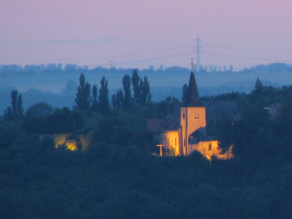 ehem. Klosterkirche des Benediktinerinnenklosters Zscheiplitz im Ortsteil Zscheiplitz von Freyburg (Unstrut), Sachsen-Anhalt, nächtliche Beleuchtung, gesehen vom 3 km entfernten Schloss Neuenburg; Beleuchtung durch den Föderverein Kloster Zscheiplitz Klosterbrüder e.V. eingerichtet